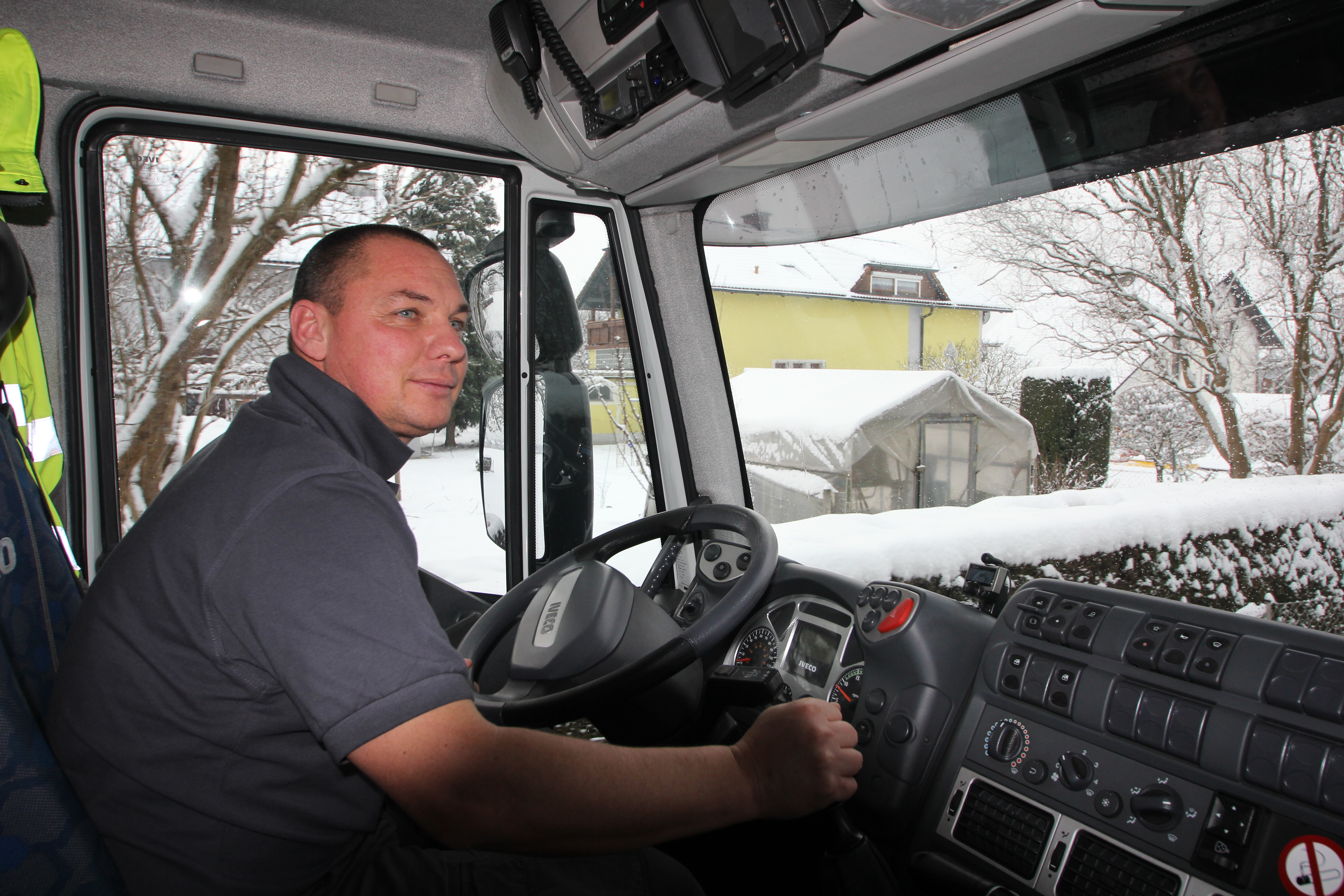 Foto: (c) Bianca Riedl / Holding Graz